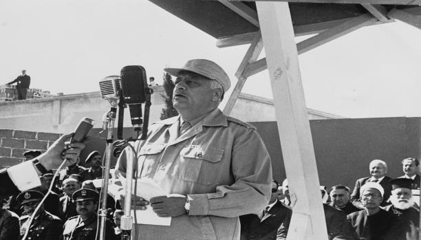 The founder of the PLO - Ahmad Shukeiri